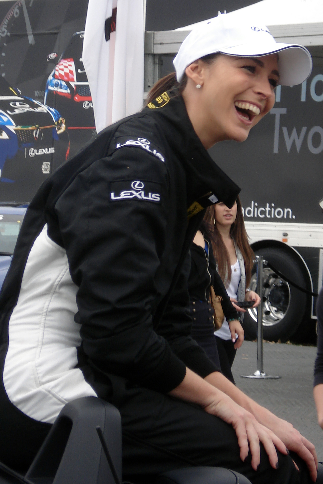 Giaan Rooney at the 2011 Formula One Australian Grand Prix in Melbourne before the Lexus Celebrity Challenge Drivers Parade.